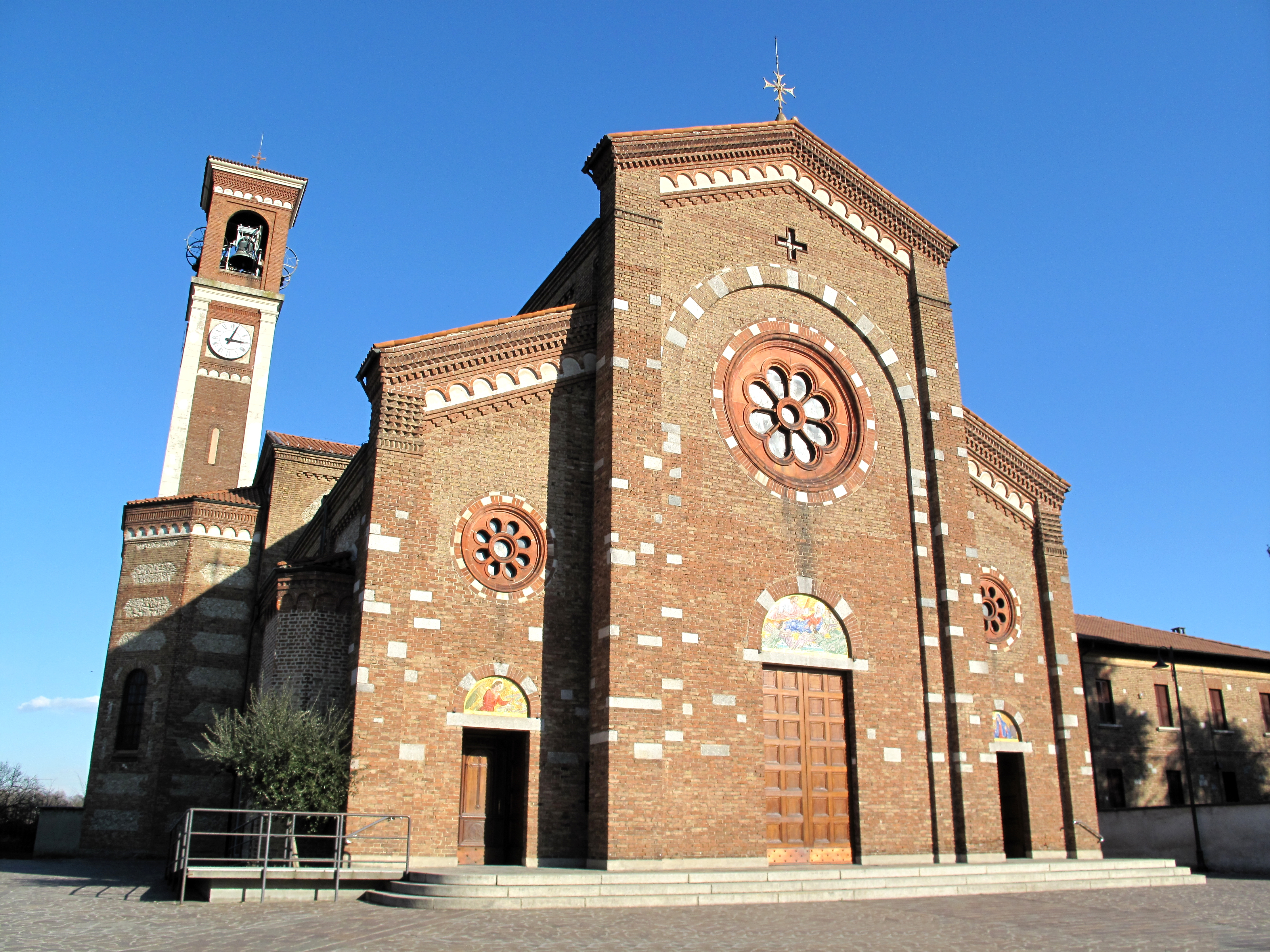 Church of Santa Margherita in Usmate Velate (MI)